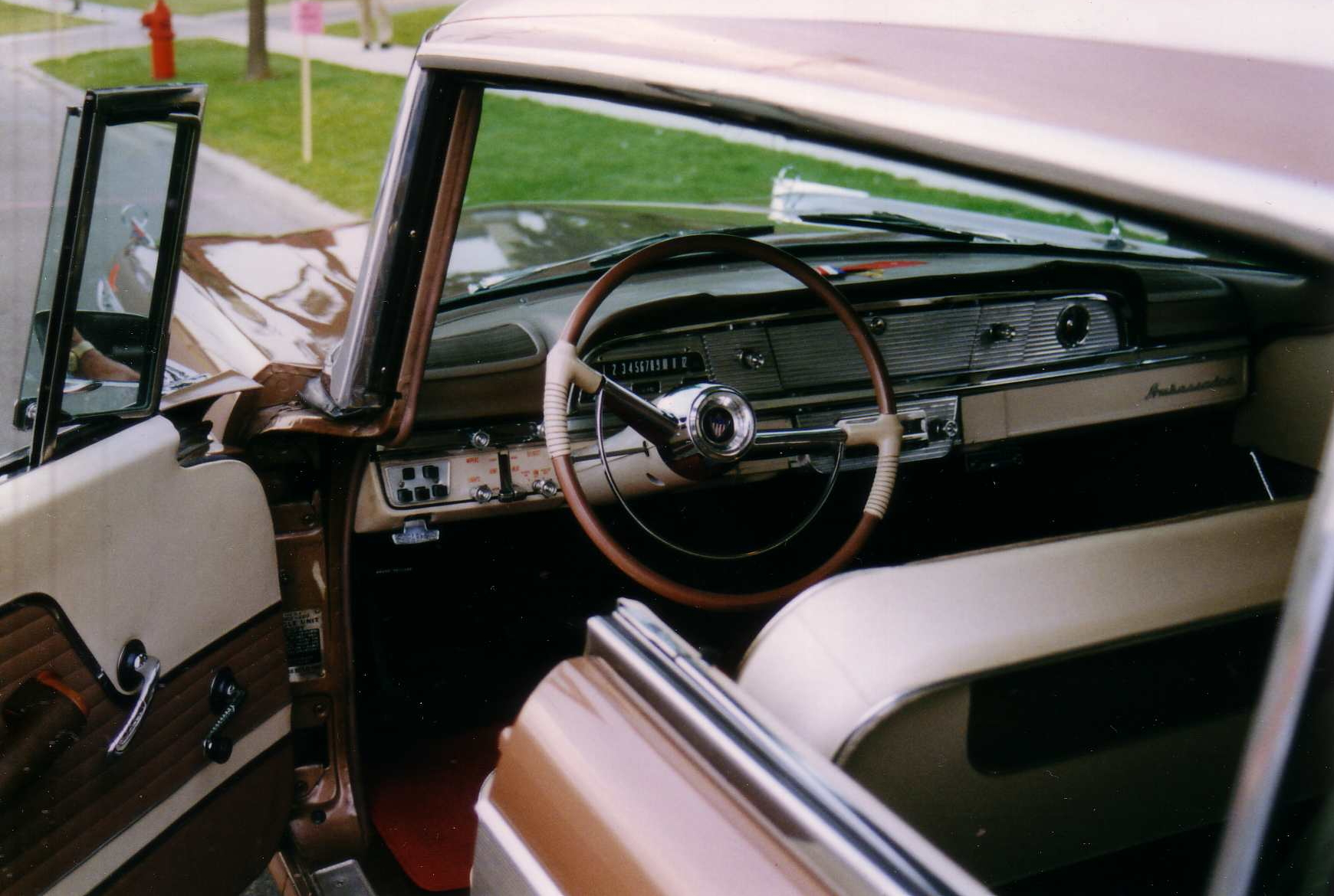 Interior view of a 1958 Ambassador by Rambler - made by American Motors Corporation (AMC) - a 4-door hardtop (note that there is no B pillar) station wagon. Picture taken near the Kenosha History Center during events at the 100th Anniversary Celebration of the Rambler (1902-2002) that was held July 22 - July 27, 2002, in Kenosha, Wisconsin.